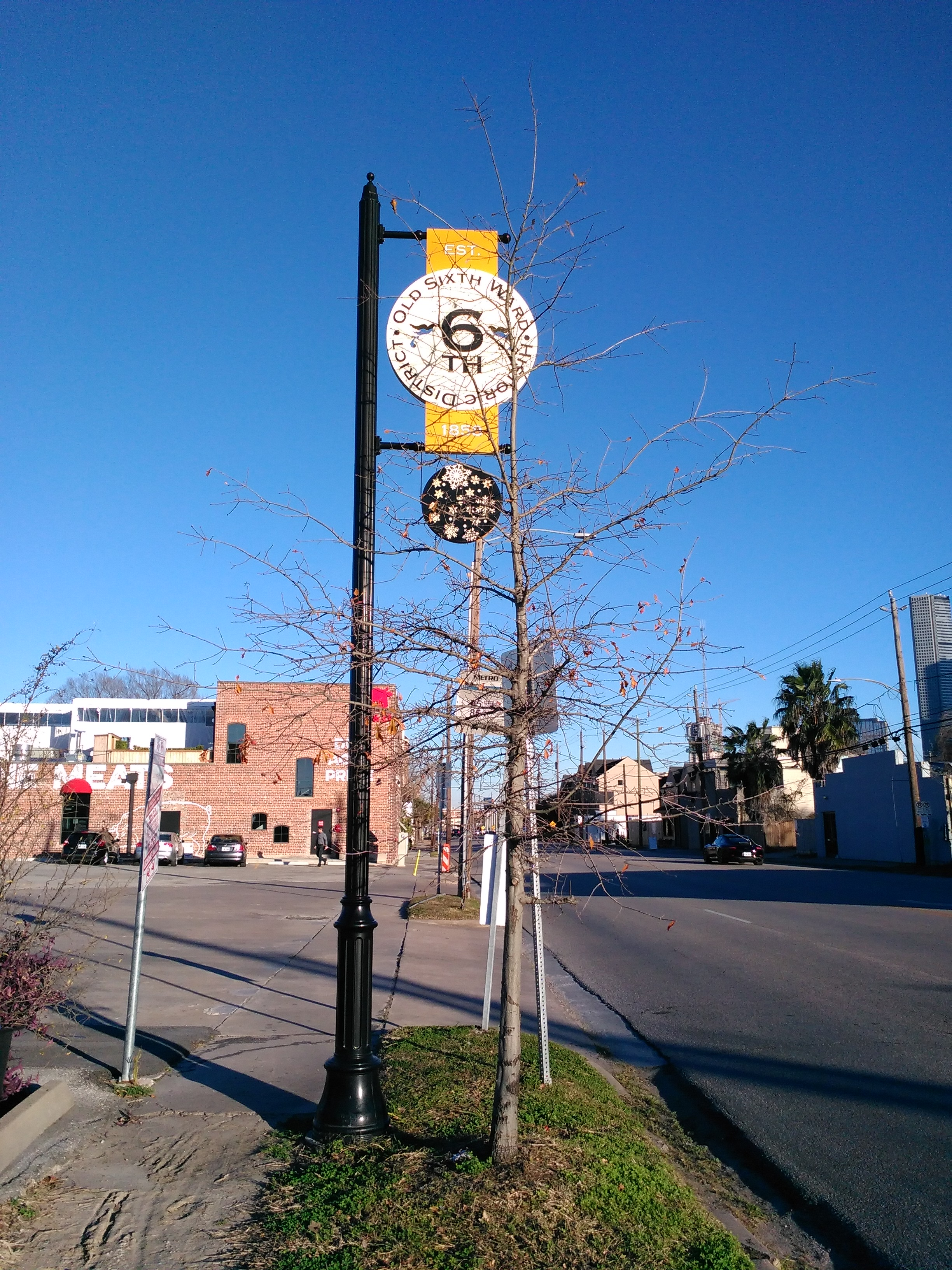 6th Ward Sign